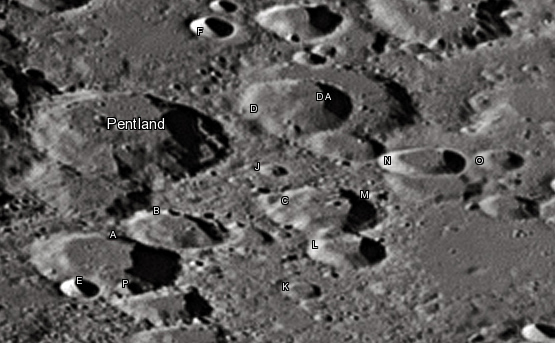 Pentland lunar crater as seen from Earth with satellite craters labeled